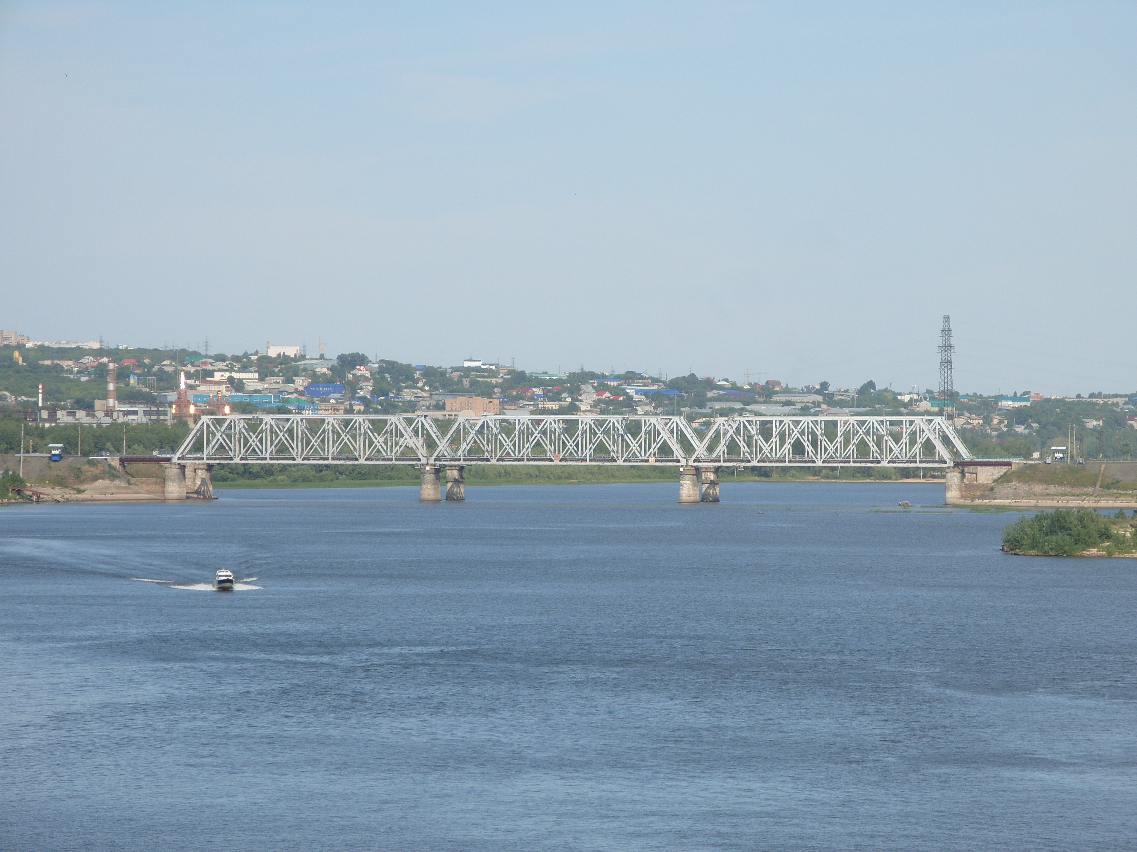 Railway bridge over Samara river